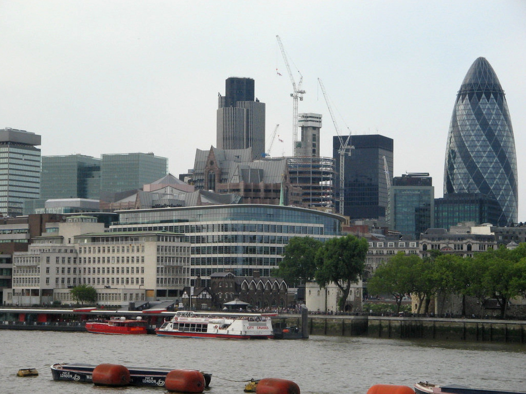 Photo taken by myself (Will Fox) in June 2006 and released to the public domain, under a free license. Anyone can use this image, for any purpose.